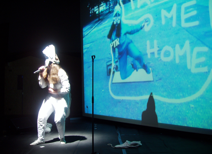 Planningtorock performing at the Kammerspiele, Munich, on the 29th of January, 2007